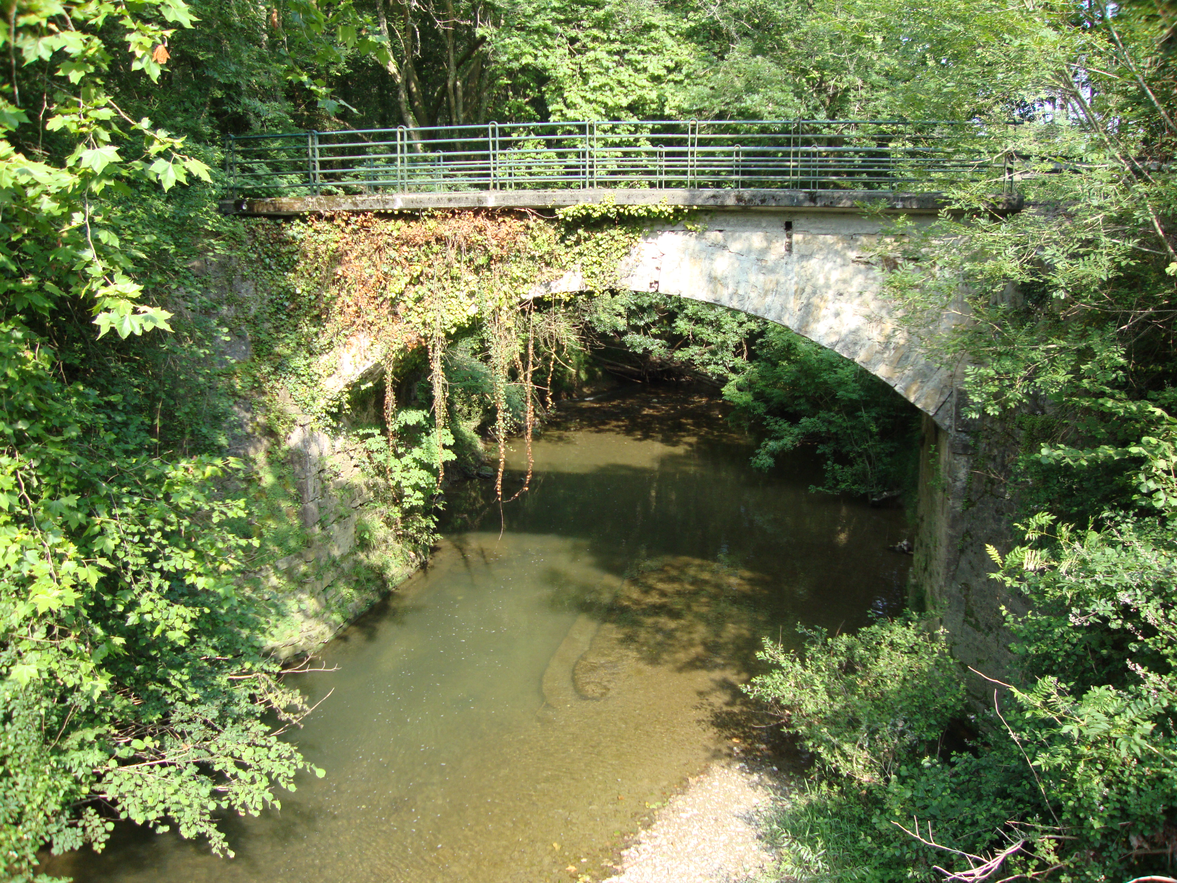 Préchacq-Josbaig (Pyr-Atl, Fr) Lausset river, bridge of D135 viewed from D25.